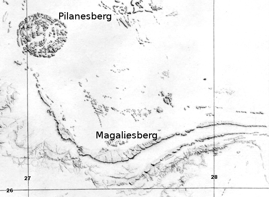 Relief map of the Pilanesberg and Magaliesberg, North West Province, South Africa